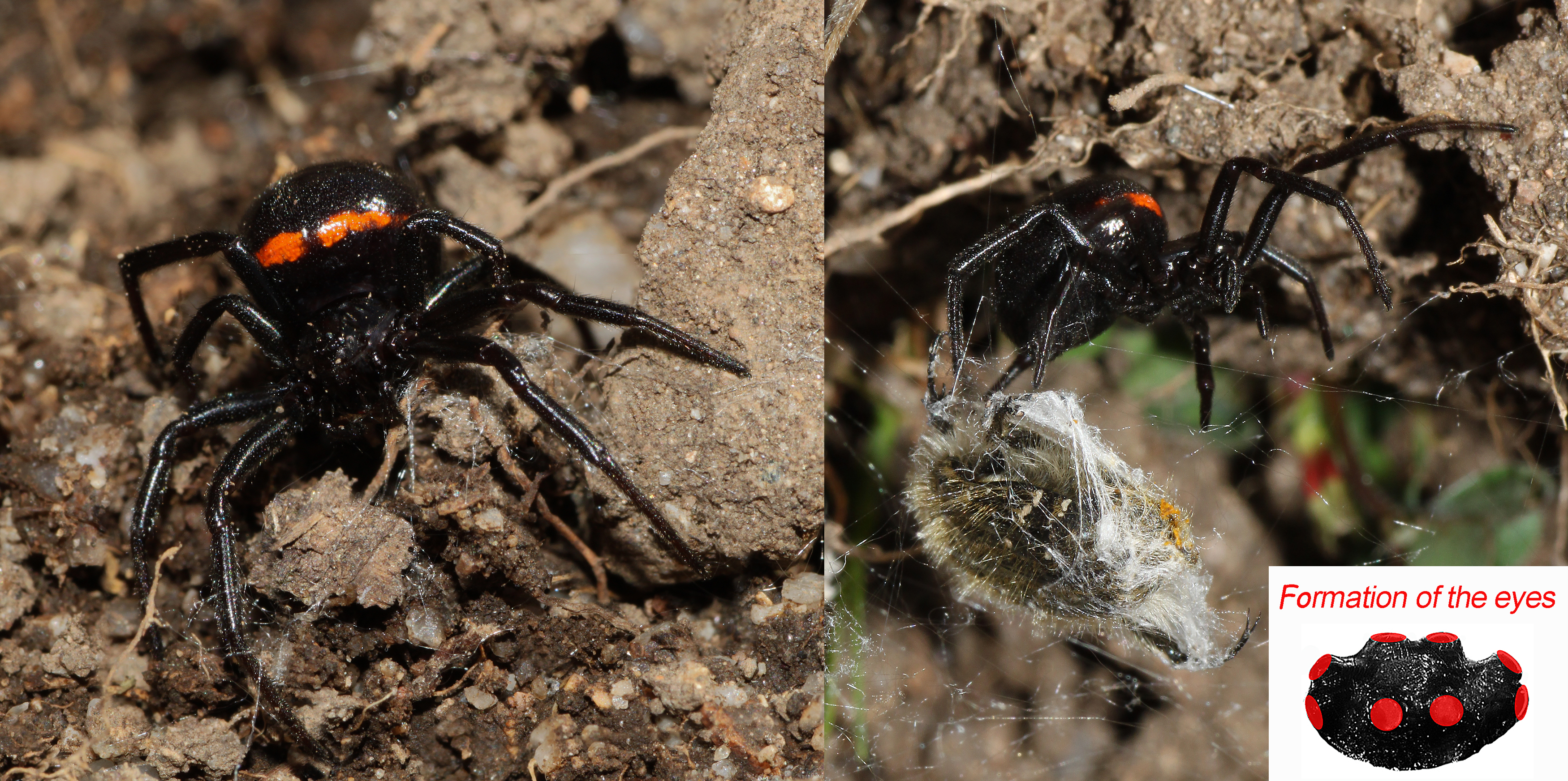 False Black Widow, Steatoda paykulliana, Family: Theridiidae, Location: Italy, Sardinia.